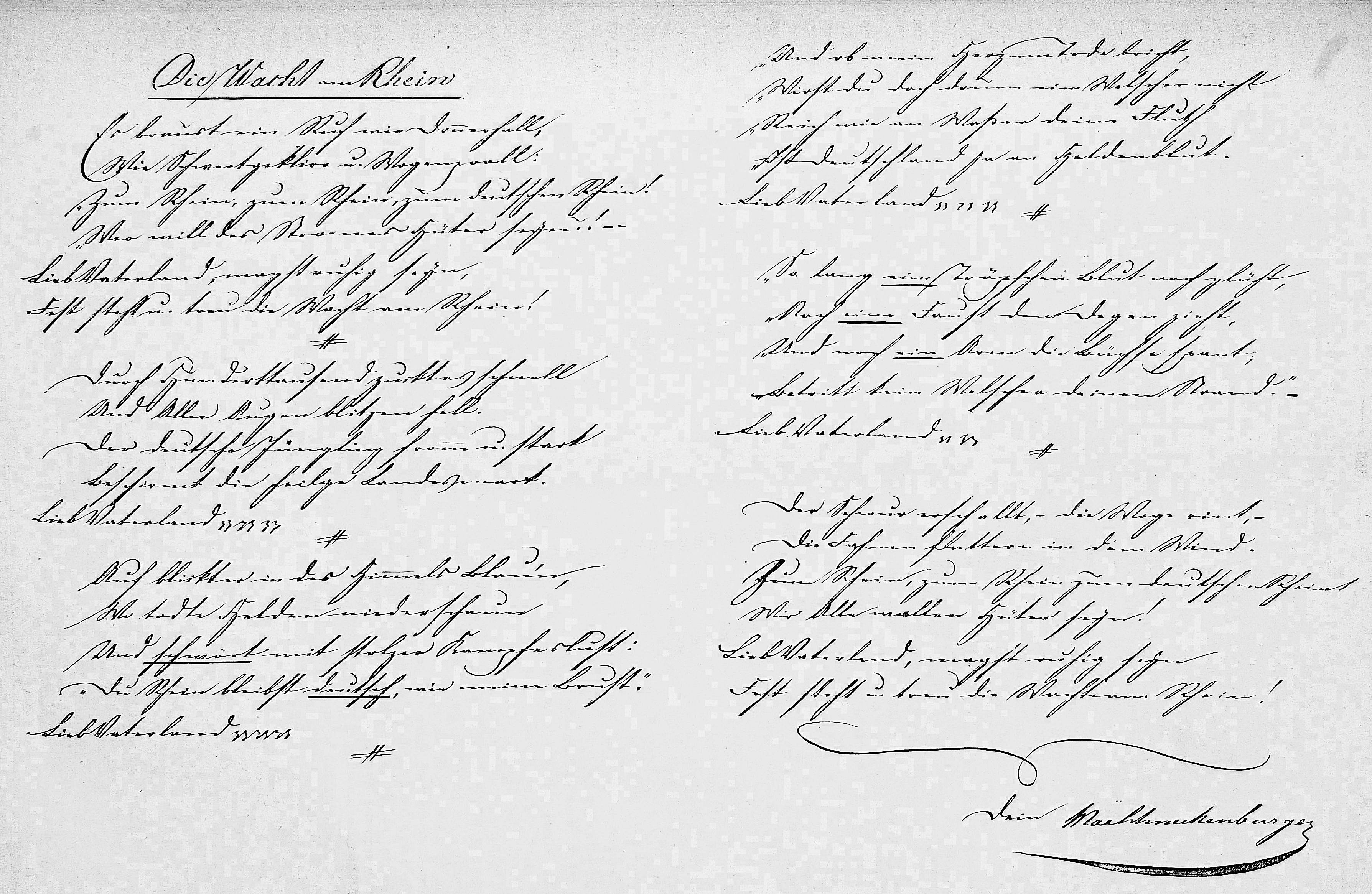 caption: "Facsimile der „Wacht am Rhein“. "